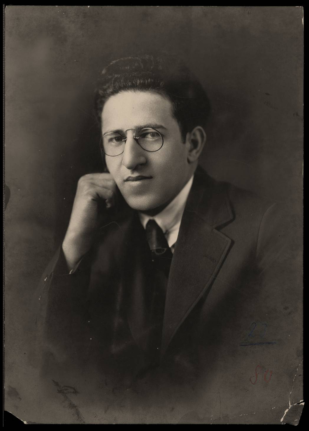 Picture of Meyer Wolfe Weisgal